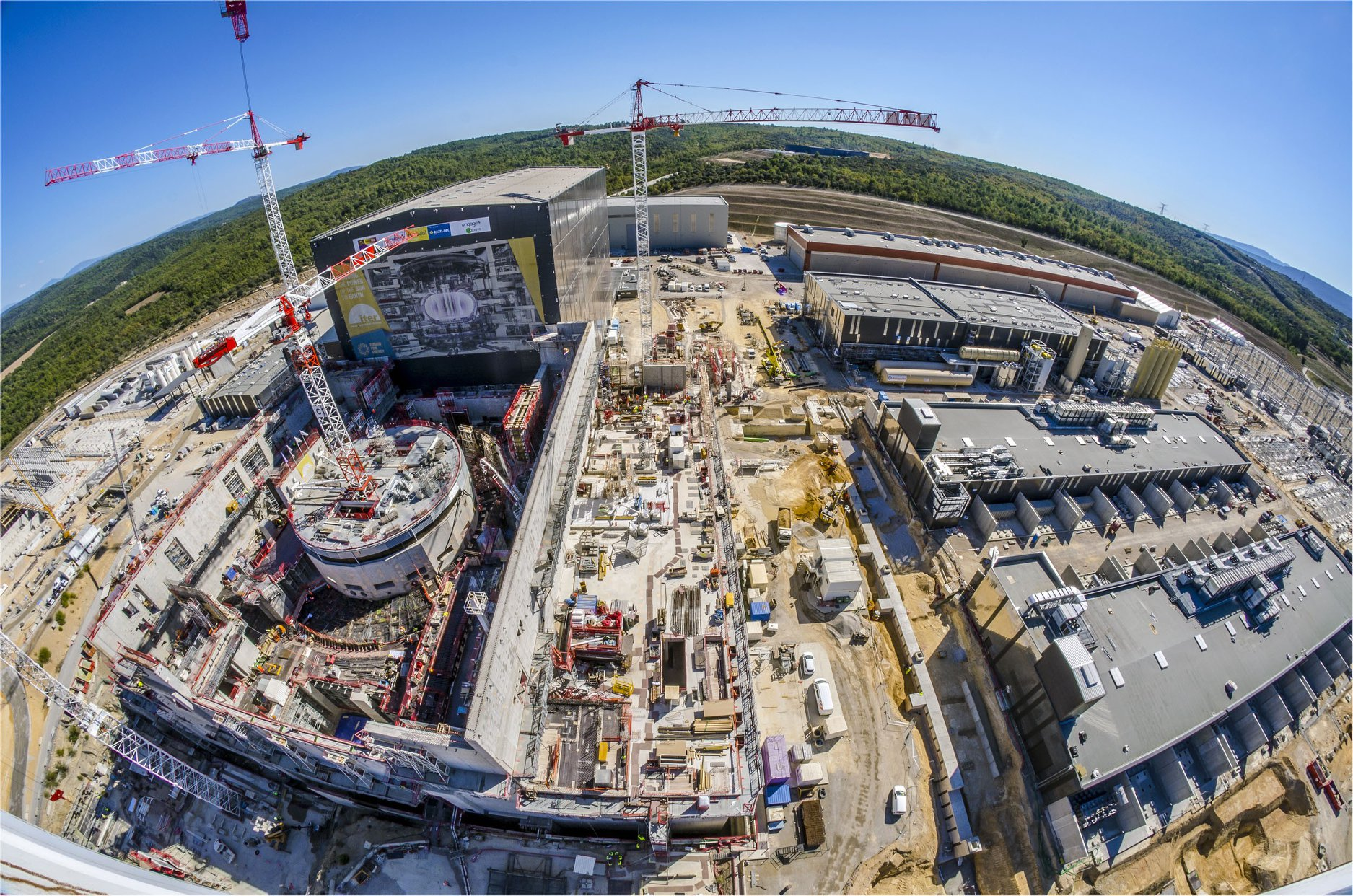 Aerial drone image of the ITER construction site. Construction of the ITER facility in Cadarache, France, began in 2010. The United States began deliveries to ITER in 2014. Hundreds of deliveries to ITER have been completed, and fabrication of multiple systems is under way. ITER is halfway to its initial operation goal of “first plasma” in 2025. America is a participant in the multinational project, with US efforts headquartered at ORNL as a DOE Office of Science Program. First plasma will be the first stage of operation for ITER as a functional machine.